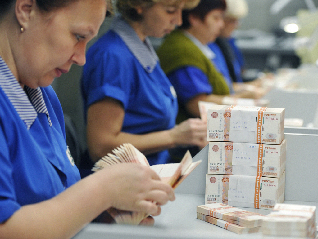 “Printing paper money at Goznak factory in Perm”. Printing paper money at a Goznak factory in Perm.